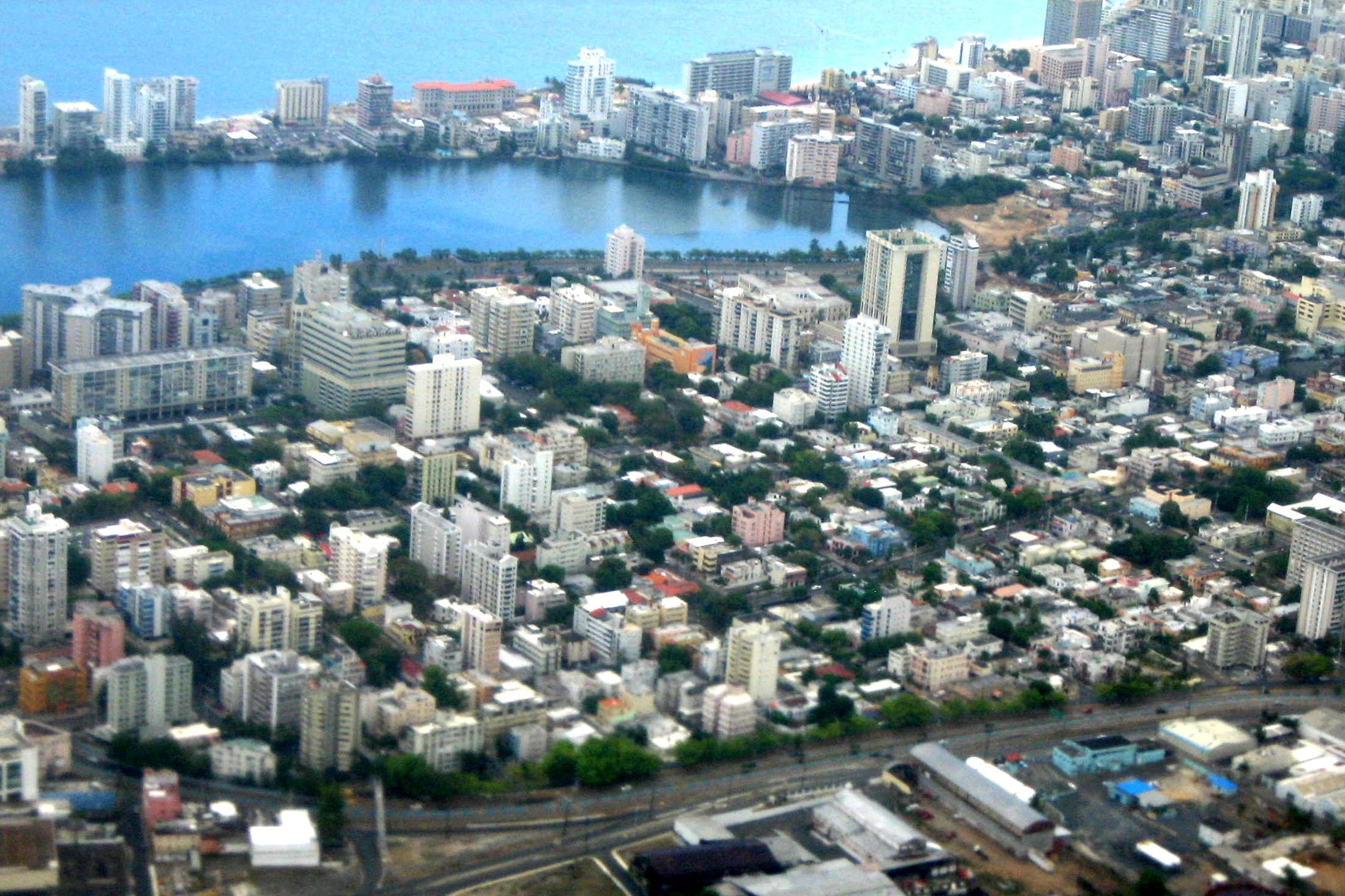 Miramar in foreground with Condado near the ocean